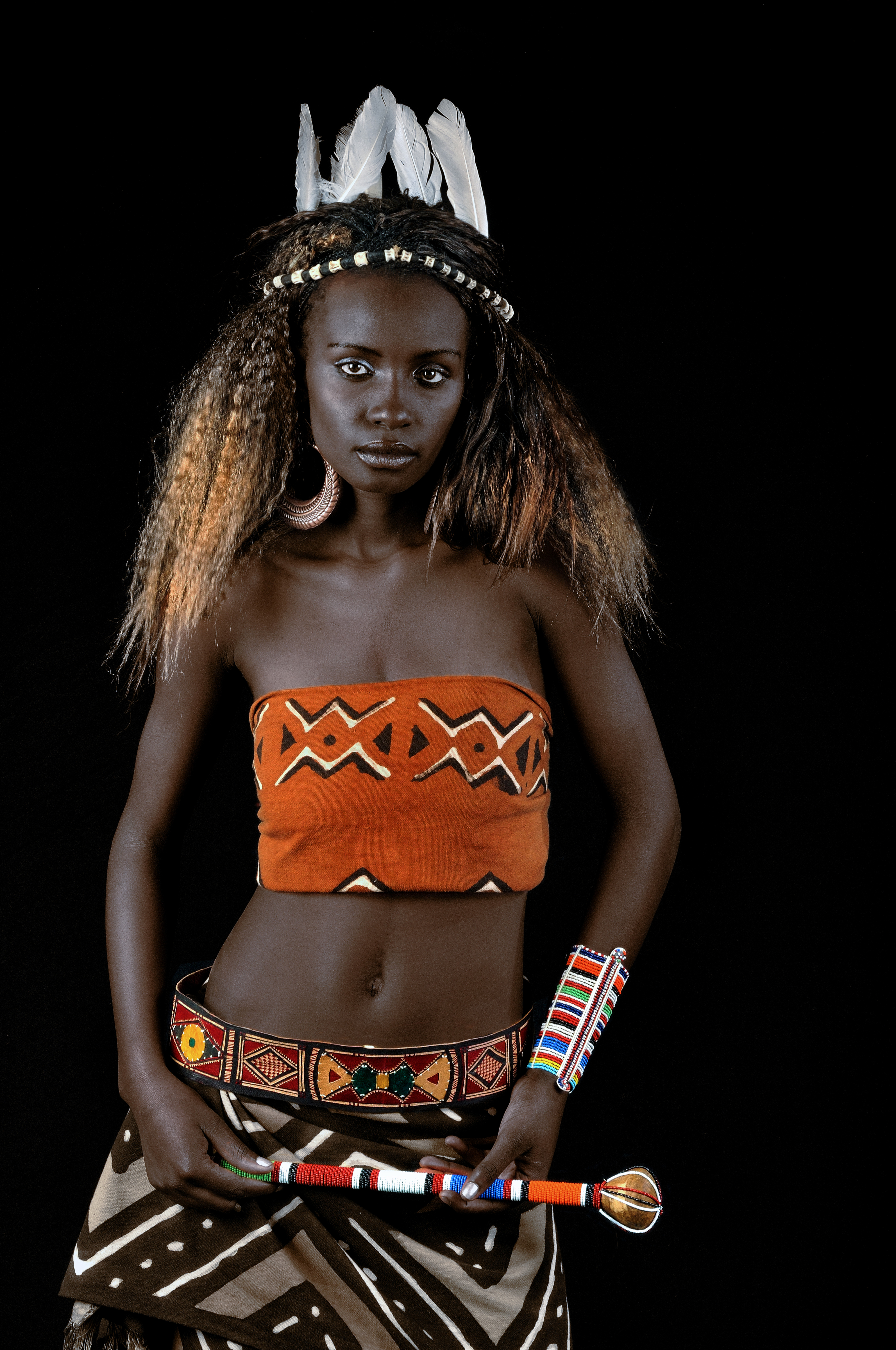 a model in attired in African mud cloth wraparound, a maasai beaded club and improvised feather ornamental. This is an image of Cultural Fashion or Adornment from Kenya